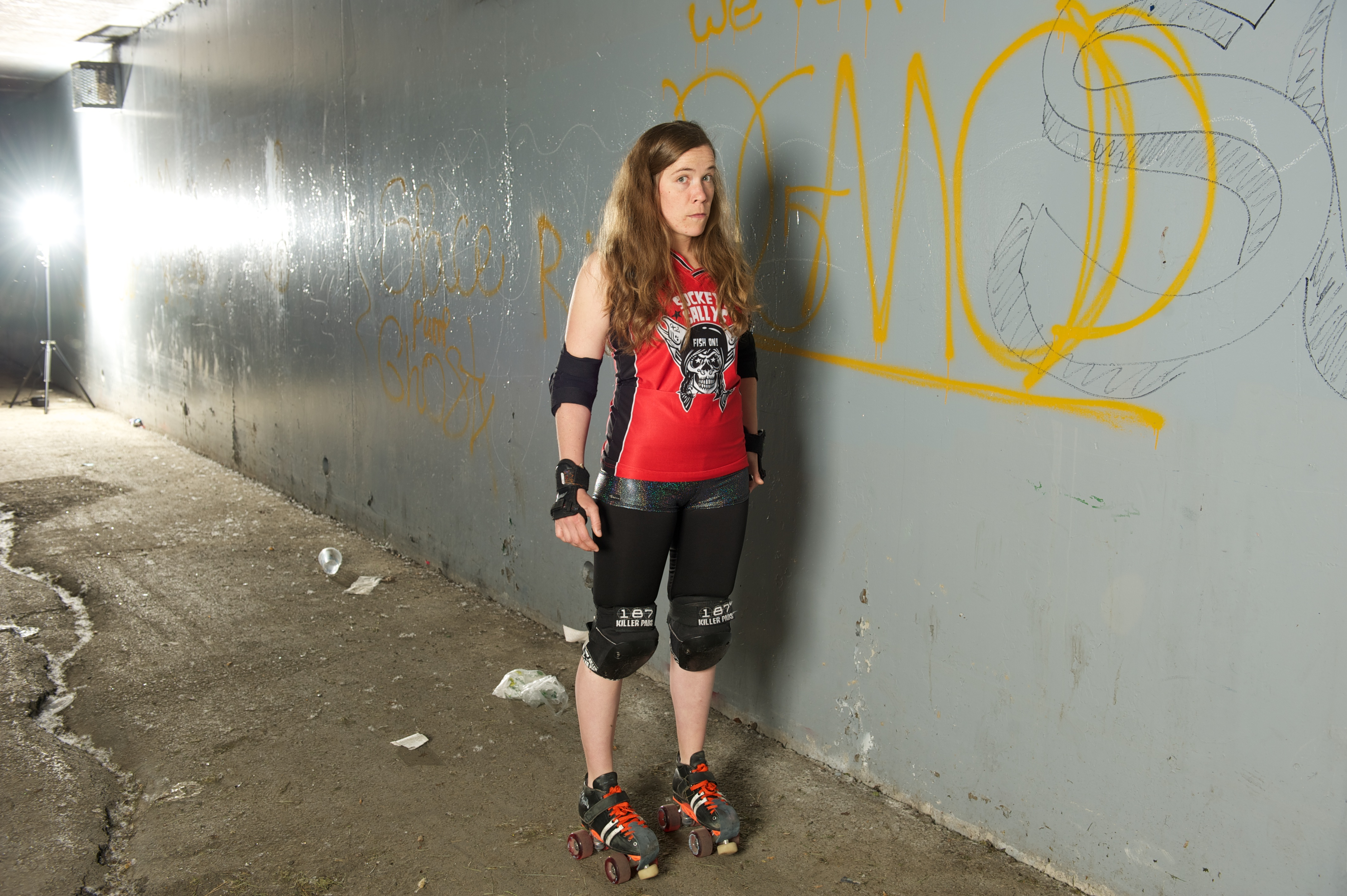 Spenard Itch, jammer for the Rage City All-Stars and the Sockeye Sallys spends a day out at Joint Base Elmendorf-Richardson and on the south end of Spenard.